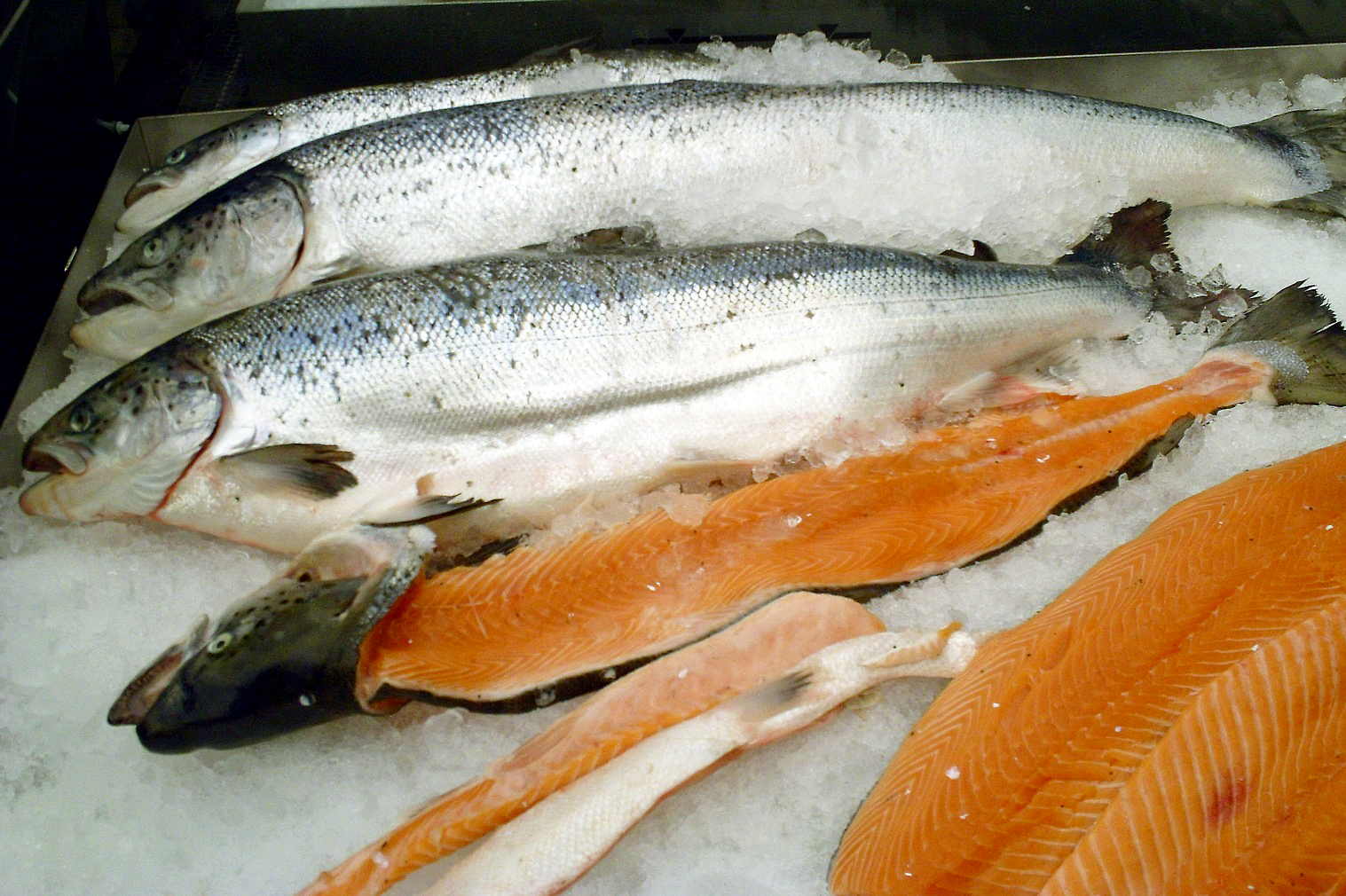 A salmon cut